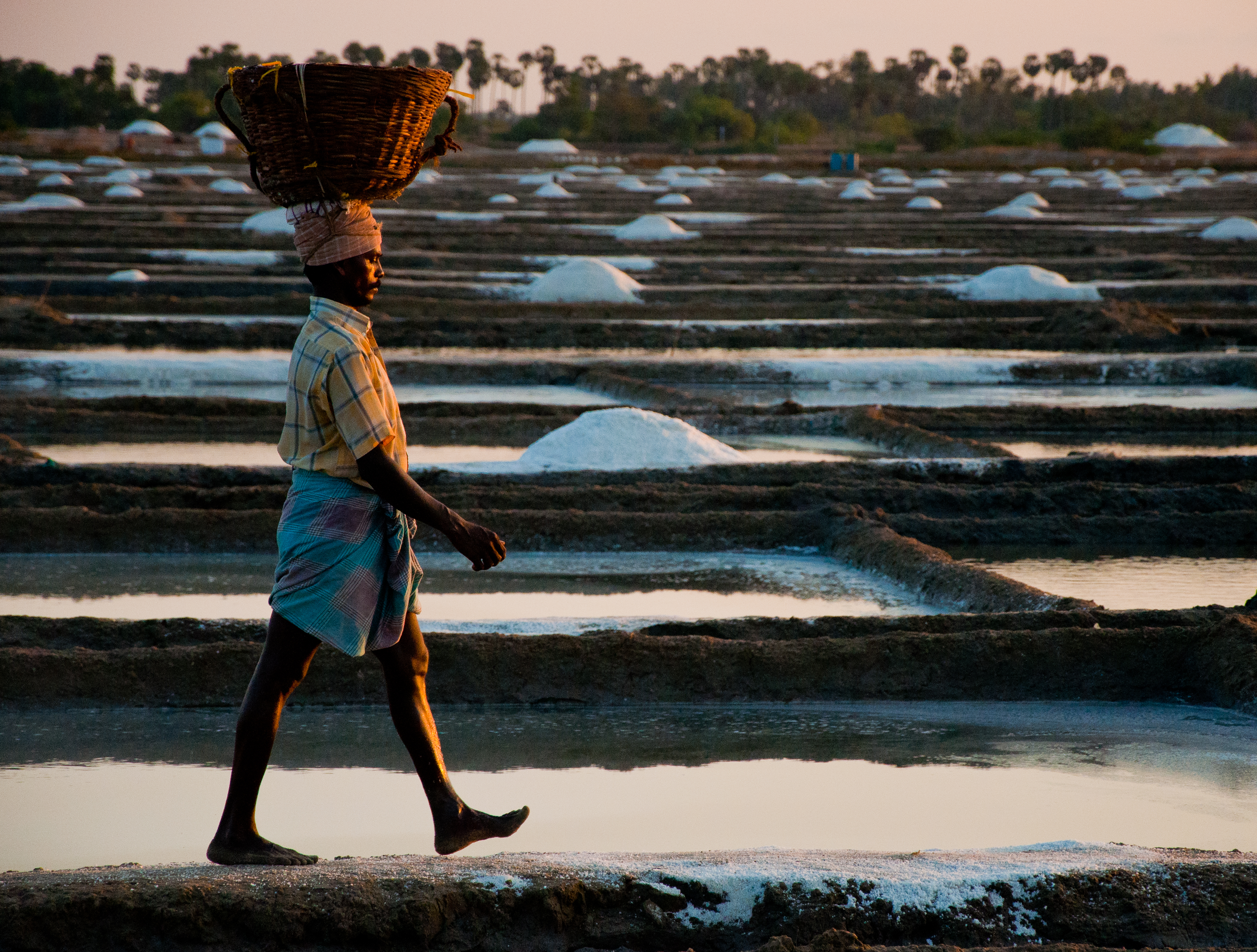 His salt march everyday